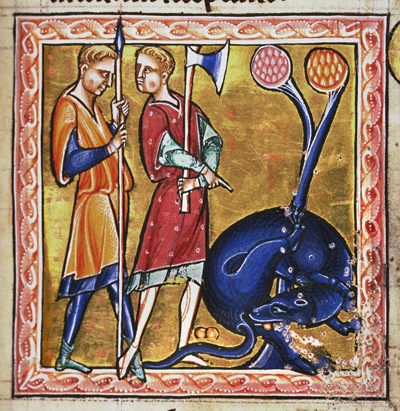 Folio 11 recto of the Aberdeen Bestiary, the Beaver